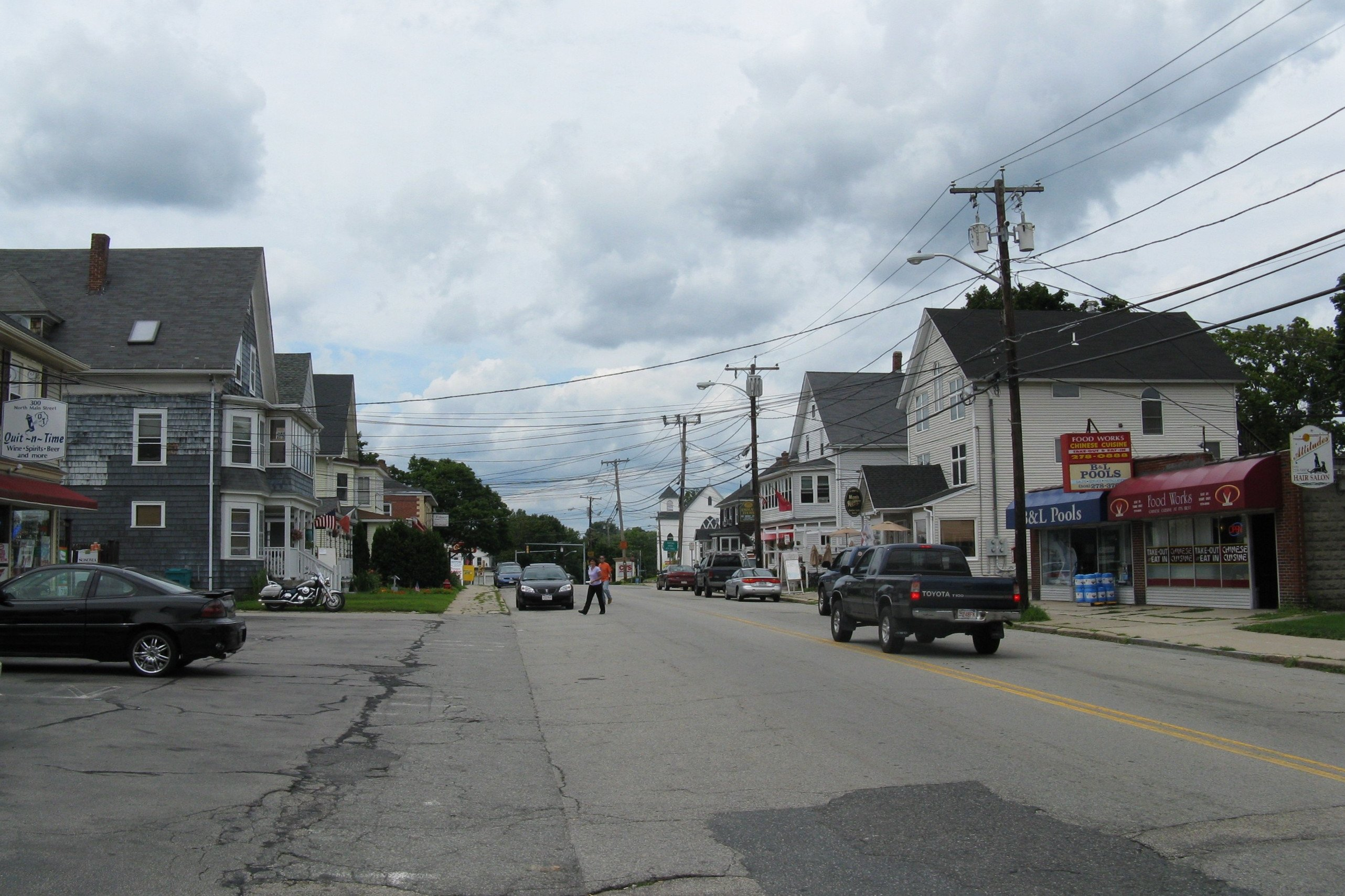 North Main Street, North Uxbridge Massachusetts